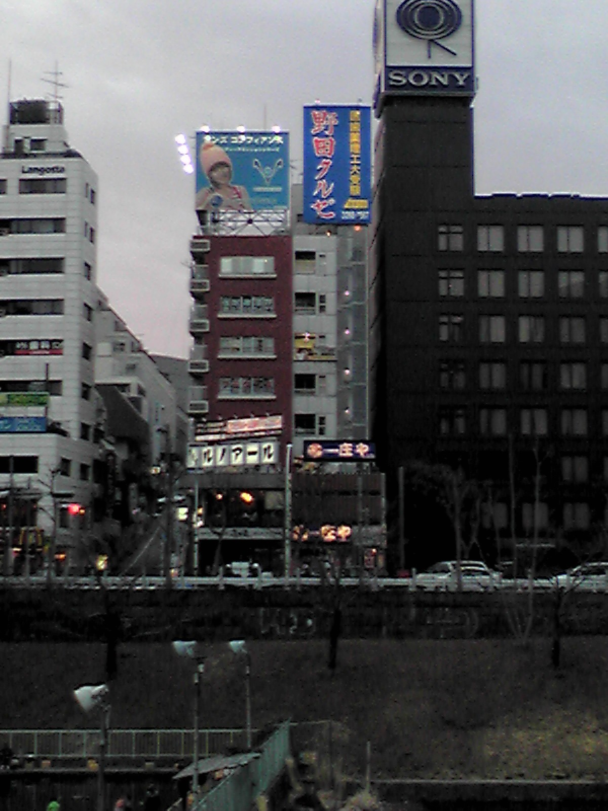 It was taken by Srinivasa Aiyangar Ramanujan in 2009.